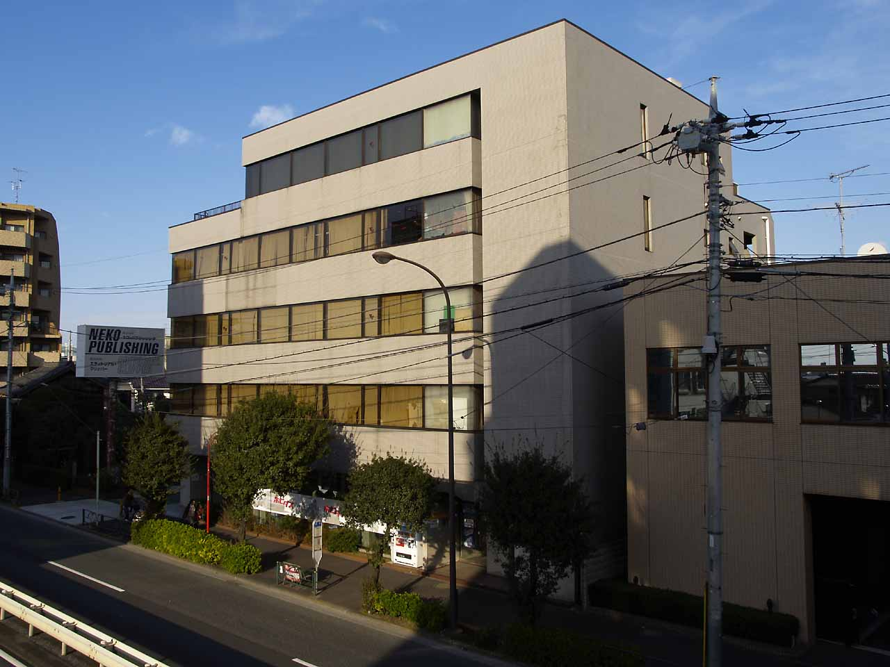 Old head office of Neko Publishing Co., located at Himon-ya, Tokyo.